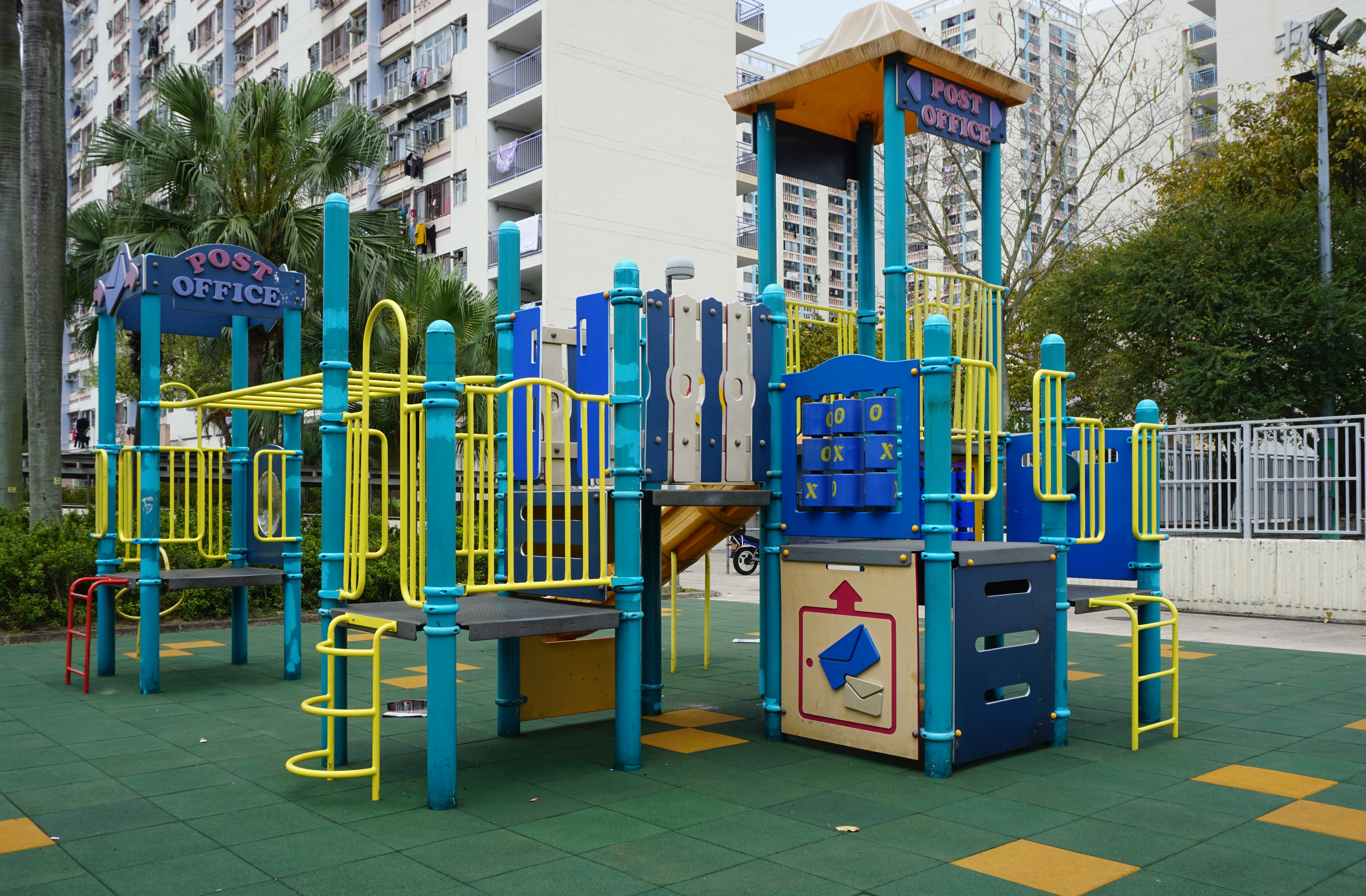 Wo Che Estate in Shatin, Hong Kong.